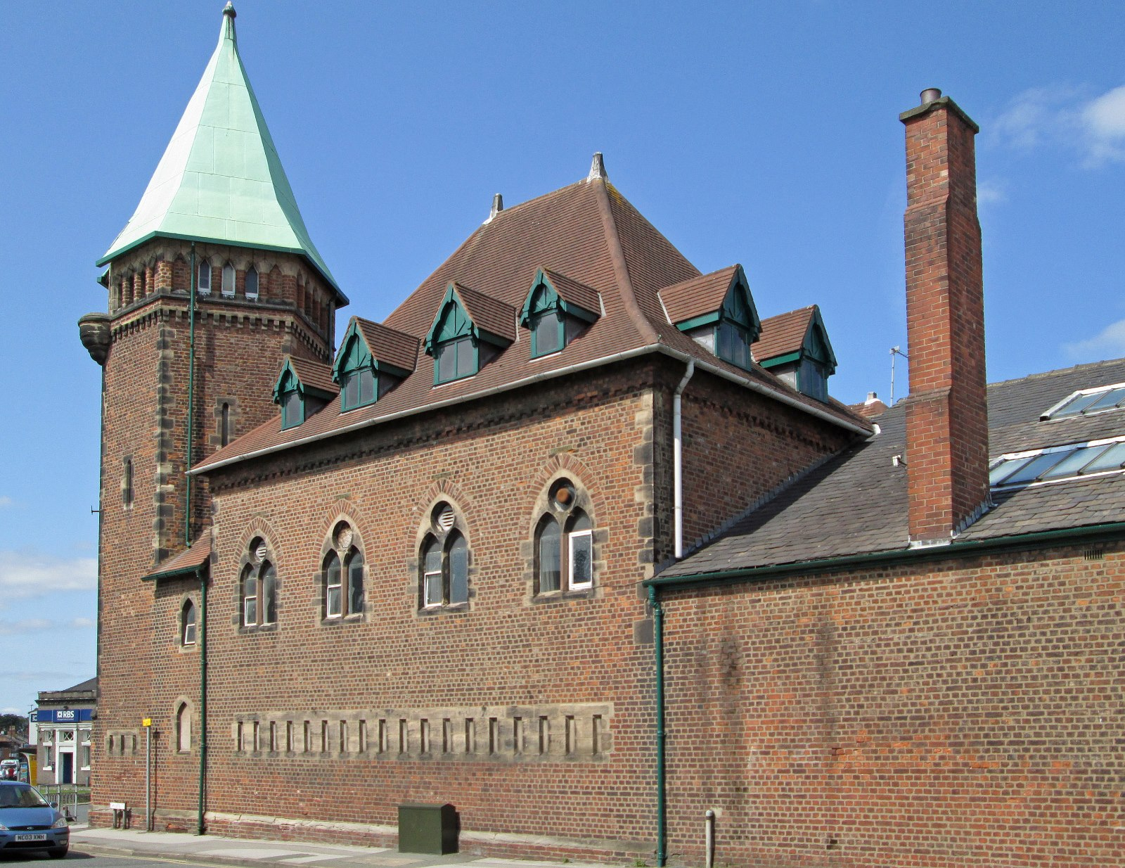 Photograph of Stockport Armoury, Greater Manchester, England